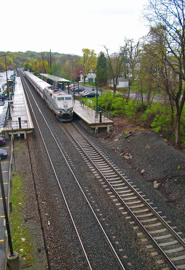 New Hamburg station from the overpass